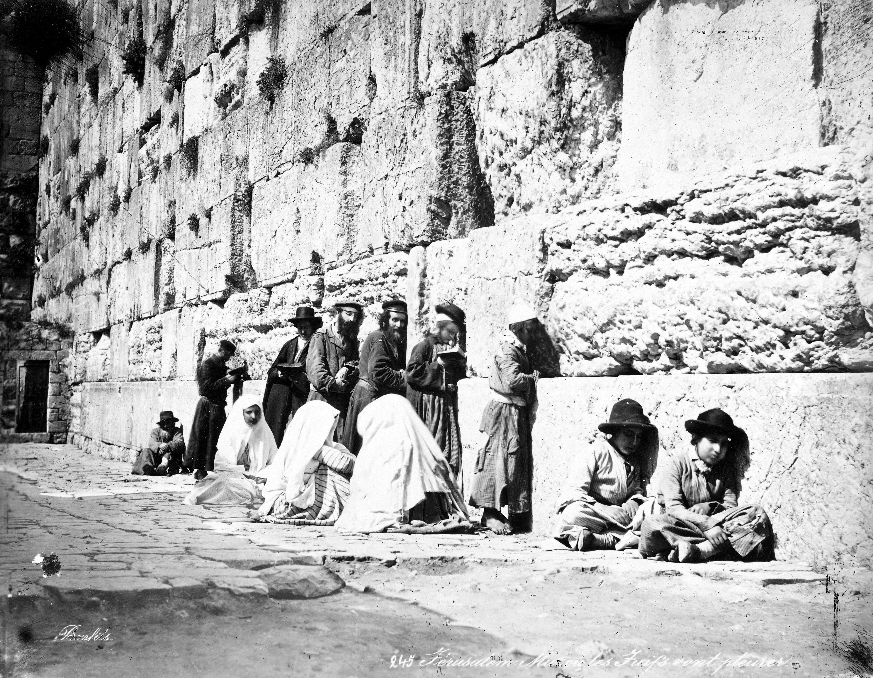 Jews at the Western Wall, Félix Bonfils, Albumen silver print.